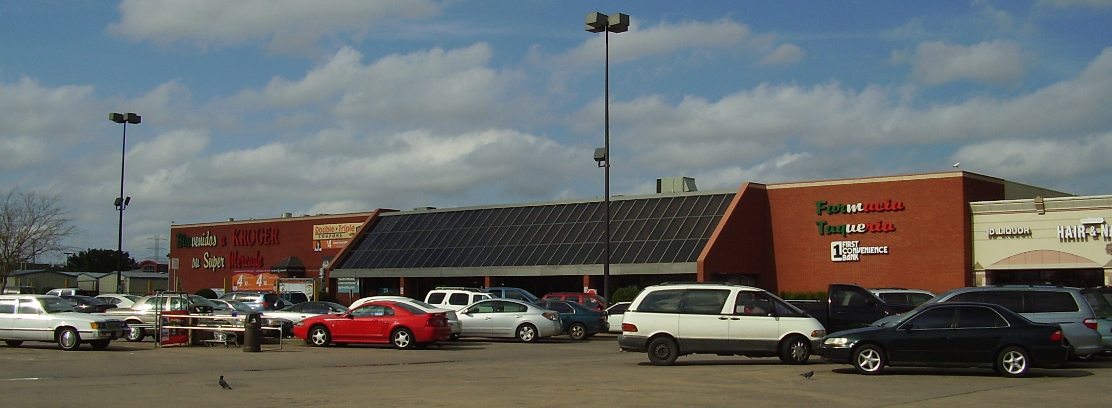 A Kroger location in Gulfton, Houston, Texas - 5610 Gulfton Dr, Houston, TX 77081